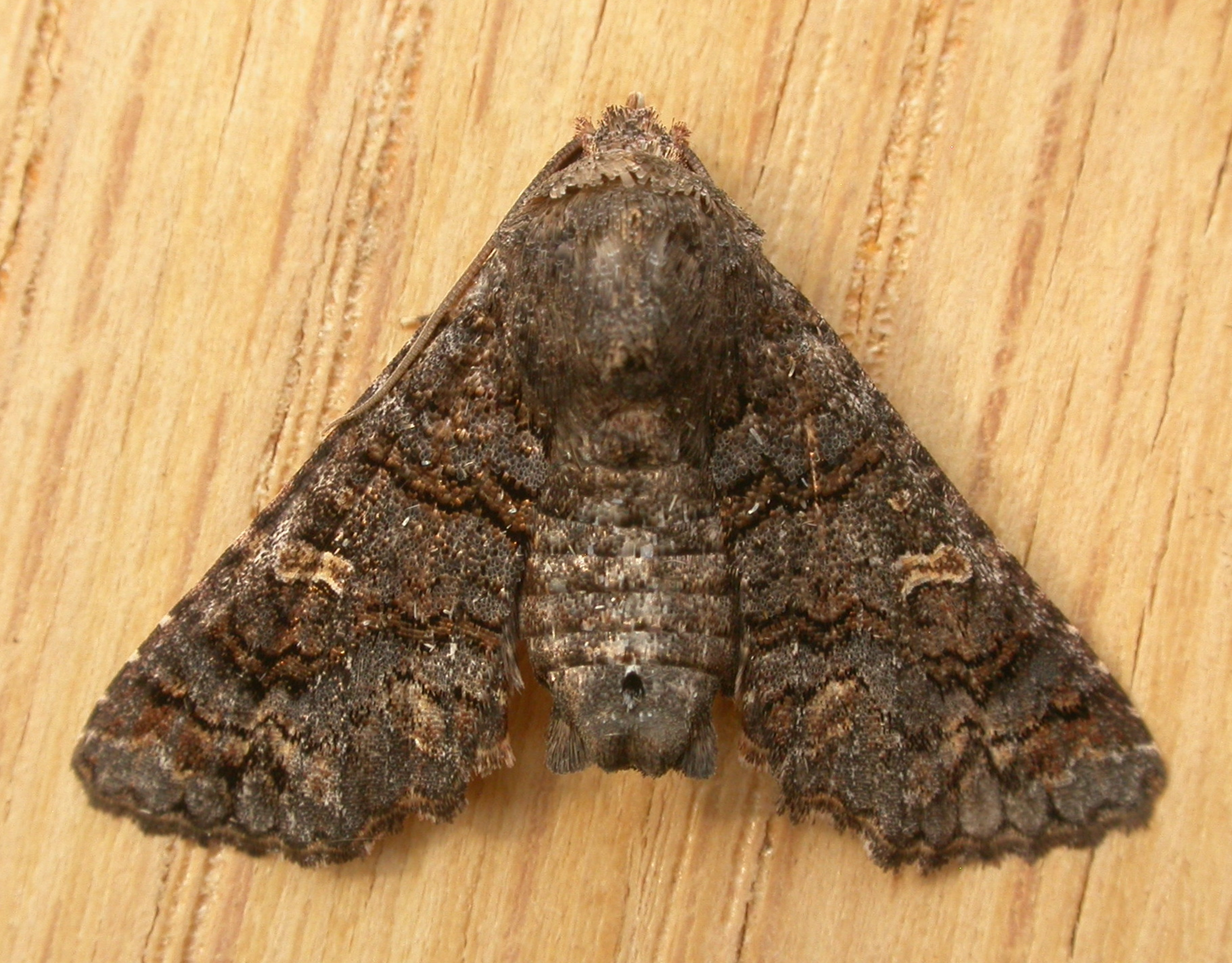 Pataeta carbo (Guenée, 1852), to MV light, Aranda, ACT, 25/26 January 2009